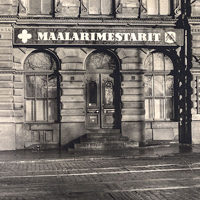 Our old store in Helsinki